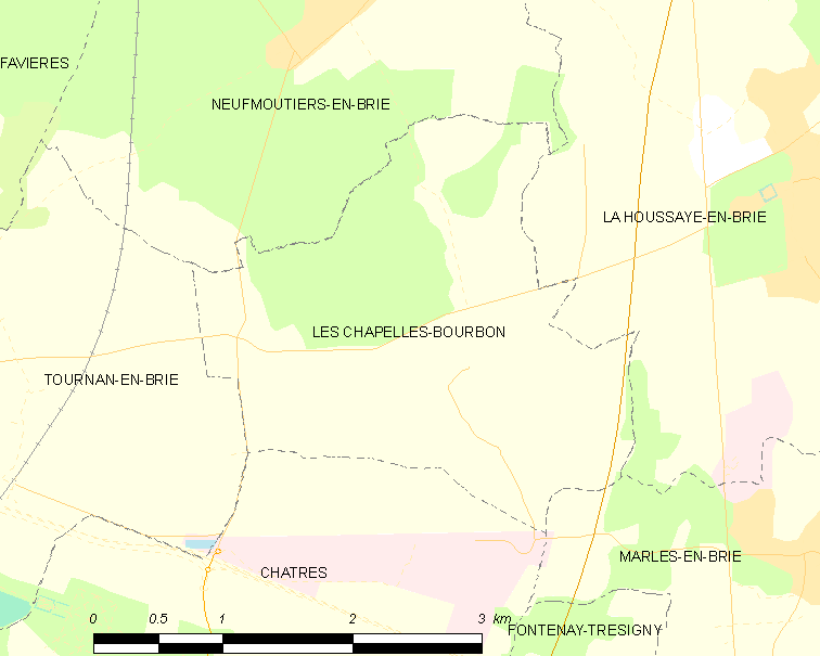 Map of French municipality Les Chapelles-Bourbon